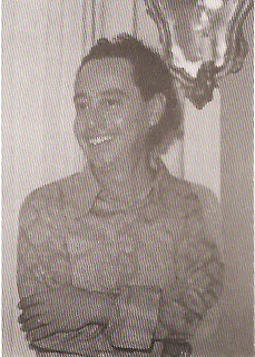 Milo - Emilio Niero